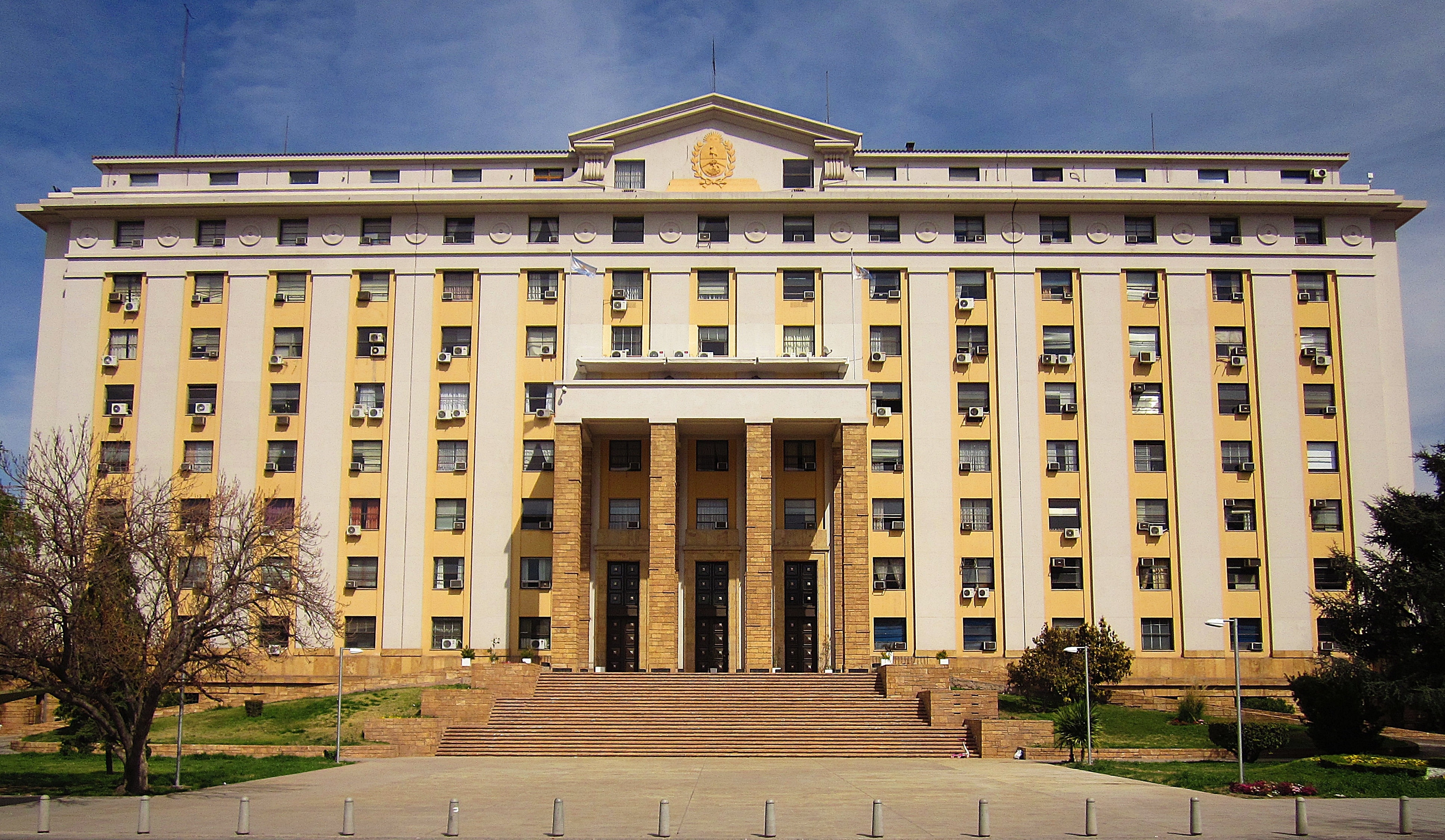 Government House of Mendoza Province, Argentina.